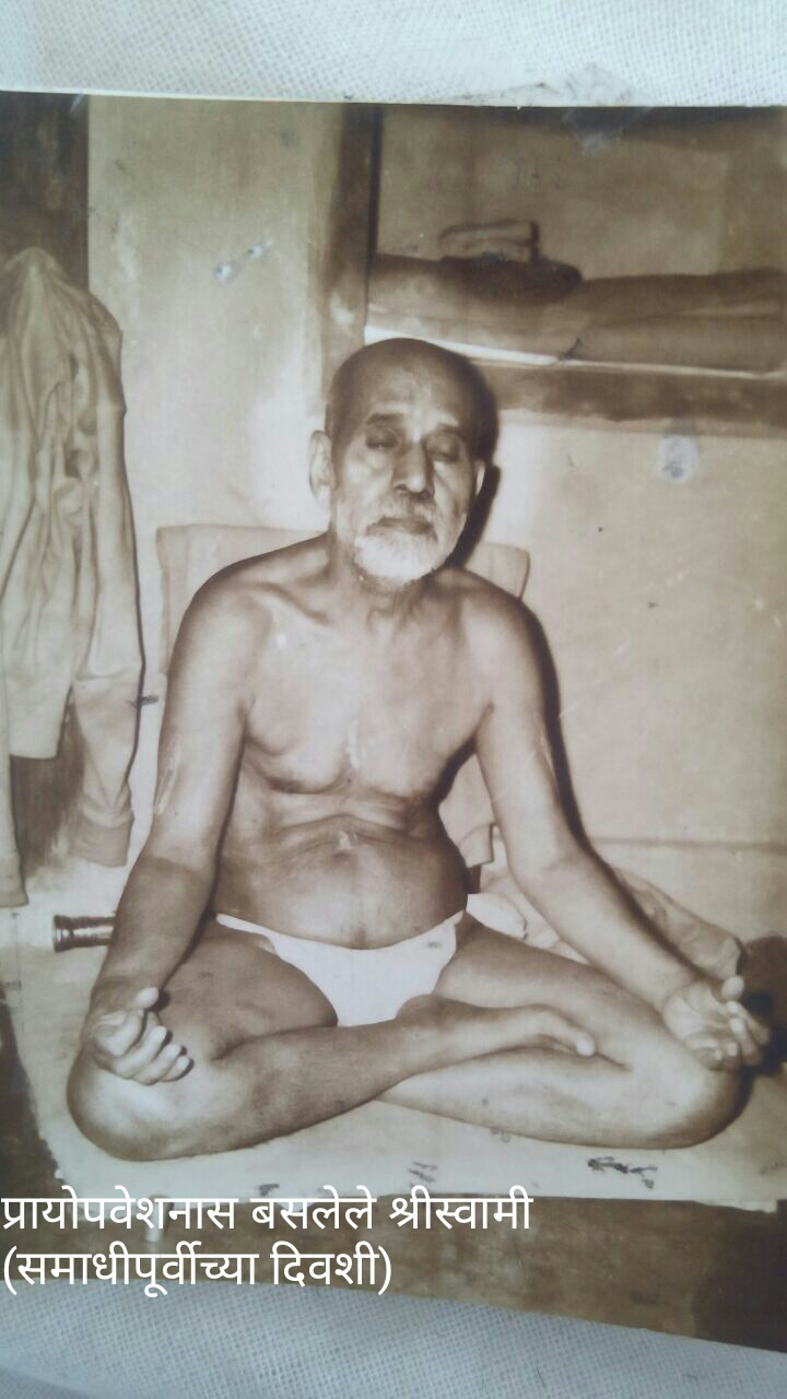 Shri Pradnyanananda Saraswati Swami took Samadhi by giving up food and water.This is his photo before a day of Mahasamathi.